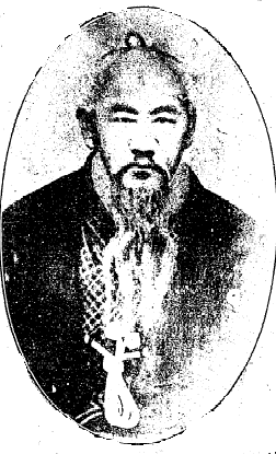 Urazoe Chōshō (1825 - 1883)